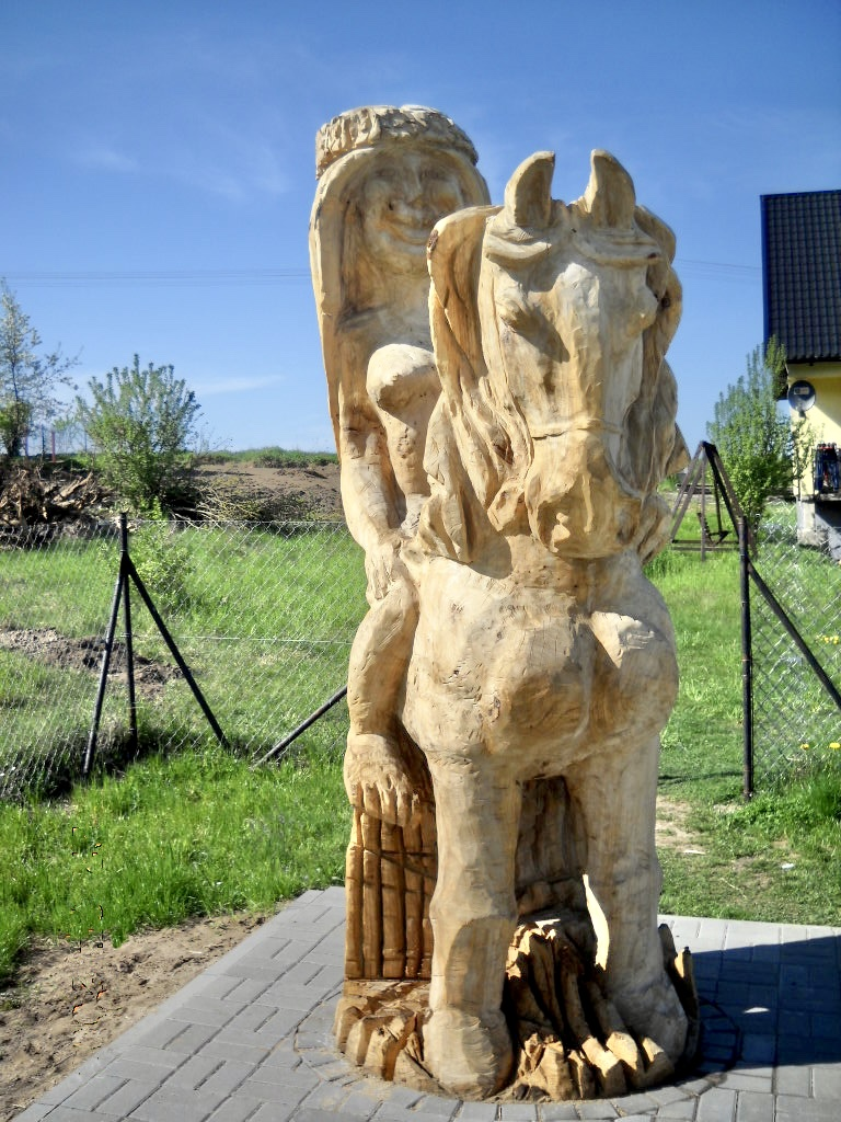 Statue of Kashubian mytical personage Pólnica located on the „Poczuj Kaszubskiego Ducha” tourist route (Tłuczewo, Poland).